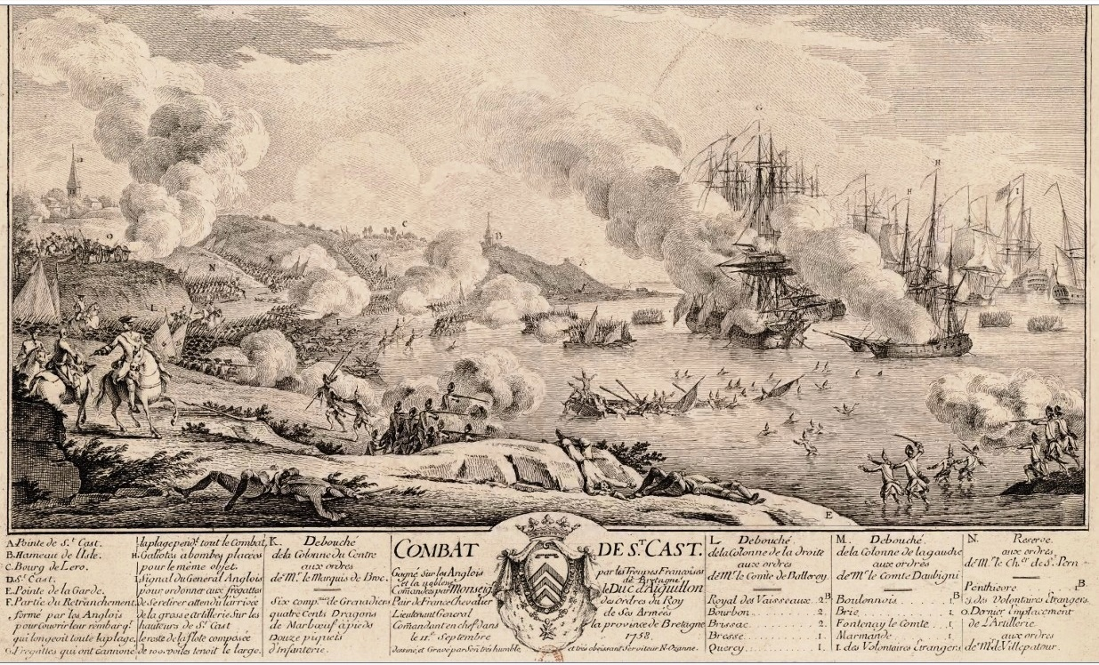 British attack on Saint-Cast in 1758 during the Seven Years War.